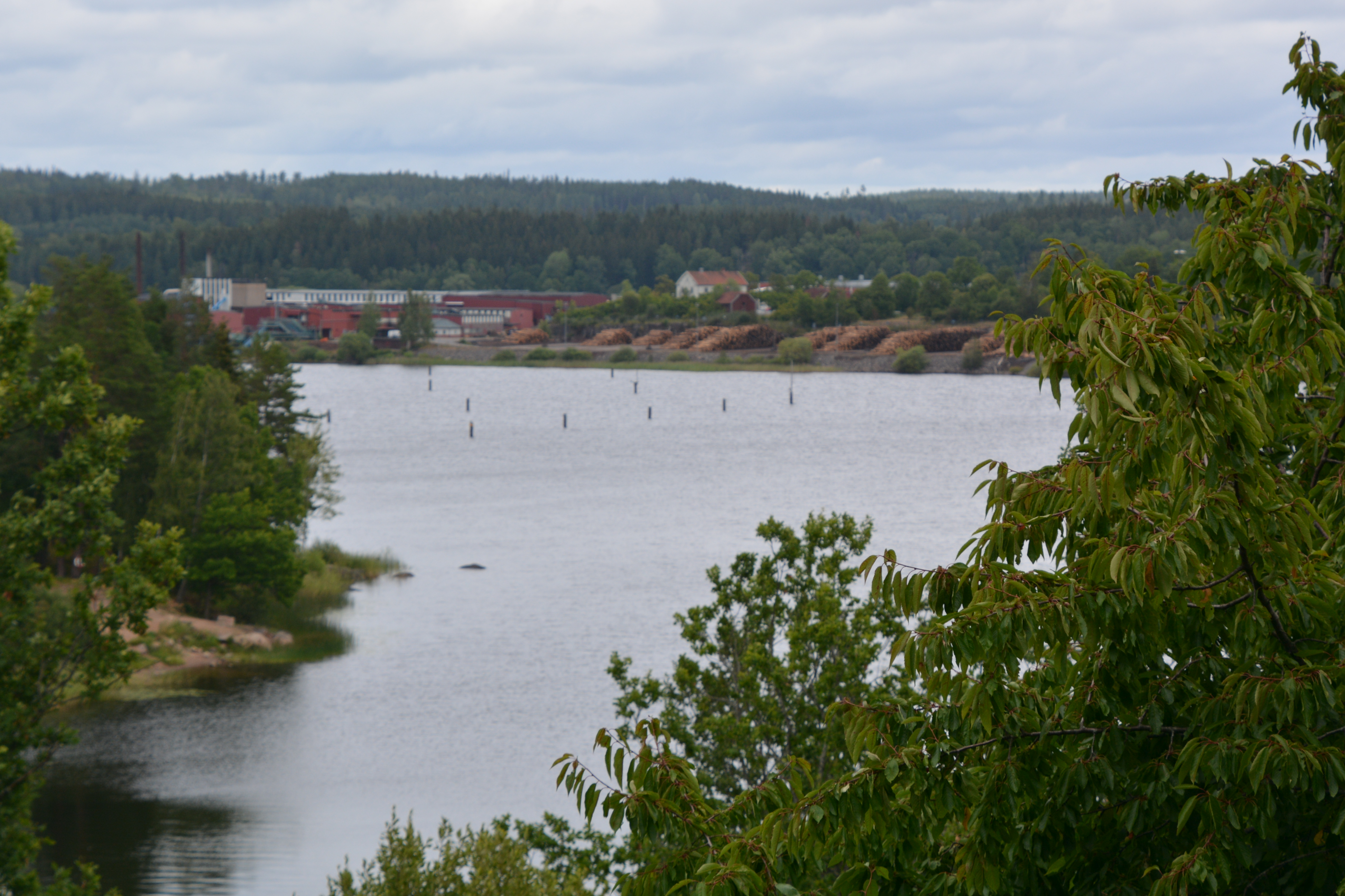 Kisasjön med Södra Wood Kinda